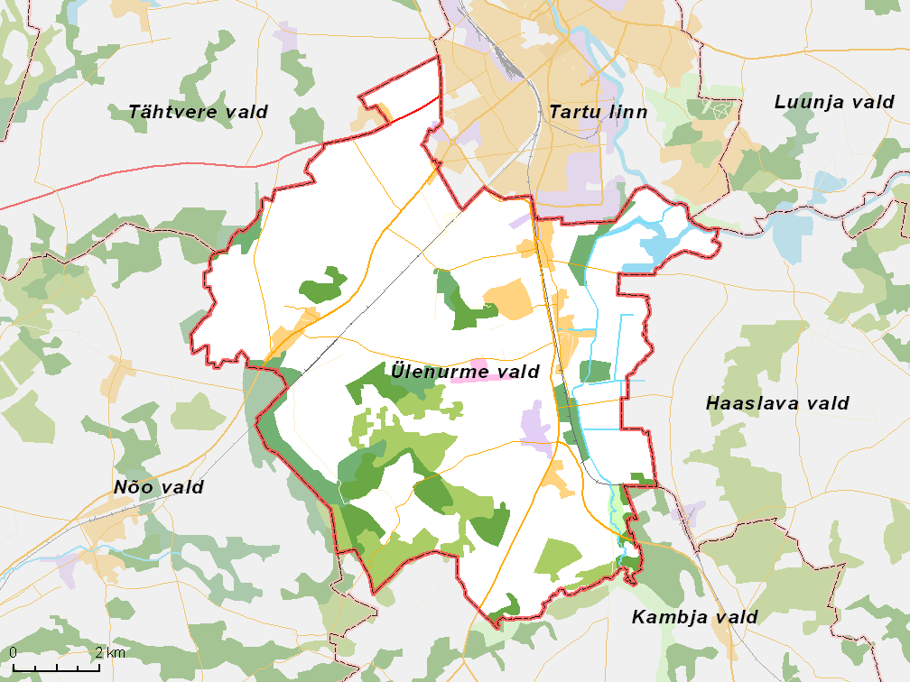 Map of municipality in Estonia